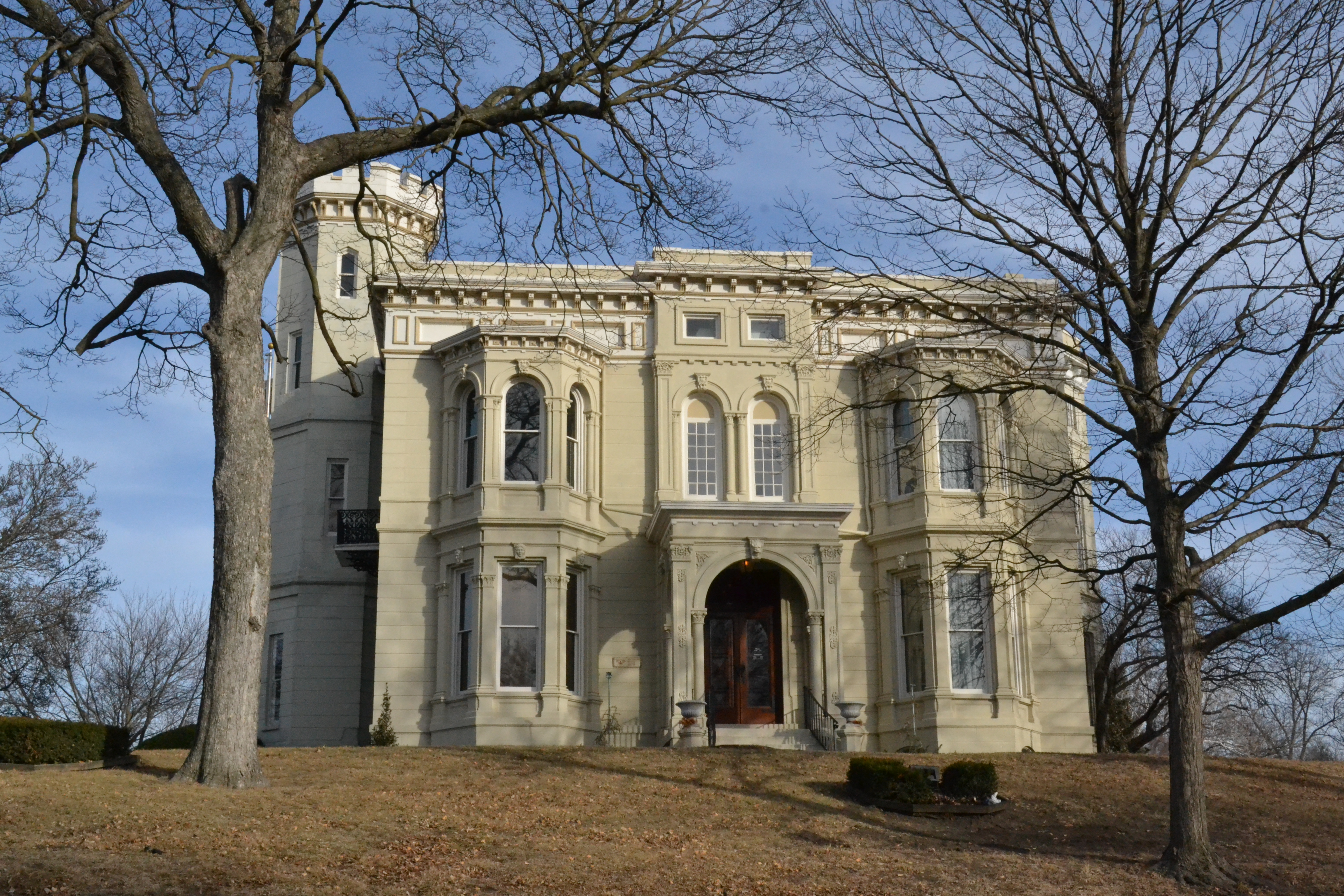 The Tootle Mansion in St. Joseph Missouri. Part of the Museum Hill Historic District.